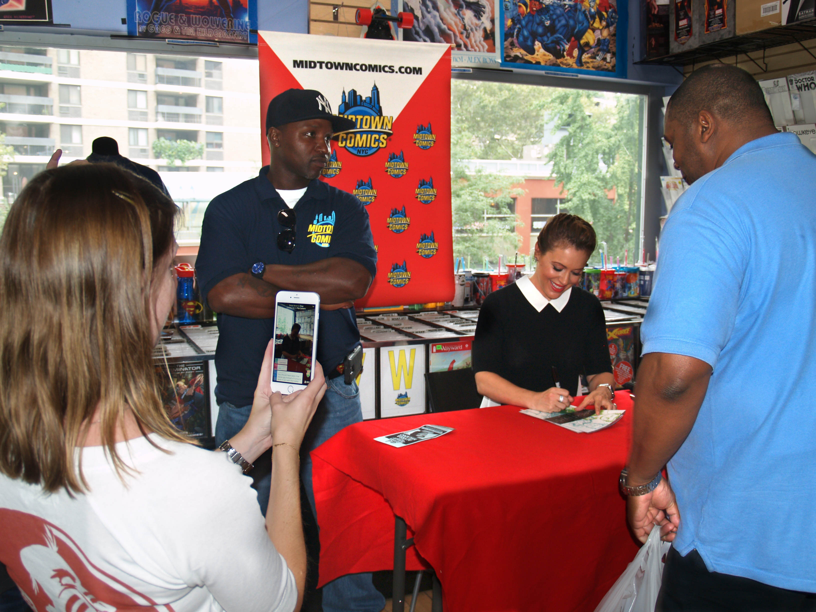 Actress Alyssa Milano signing fans' copies of her graphic novel, Hacktivist, at a September 12, 2015 book signing at Midtown Comics Downtown in Manhattan. The woman in the white shirt at left is Kelly Kall, Milano's assistant, who is using the video streaming application Periscope in order to live broadcast the signing to fans. This photo was created by Luigi Novi. It is not in the public domain, and use of this file outside of the licensing terms is a copyright violation.